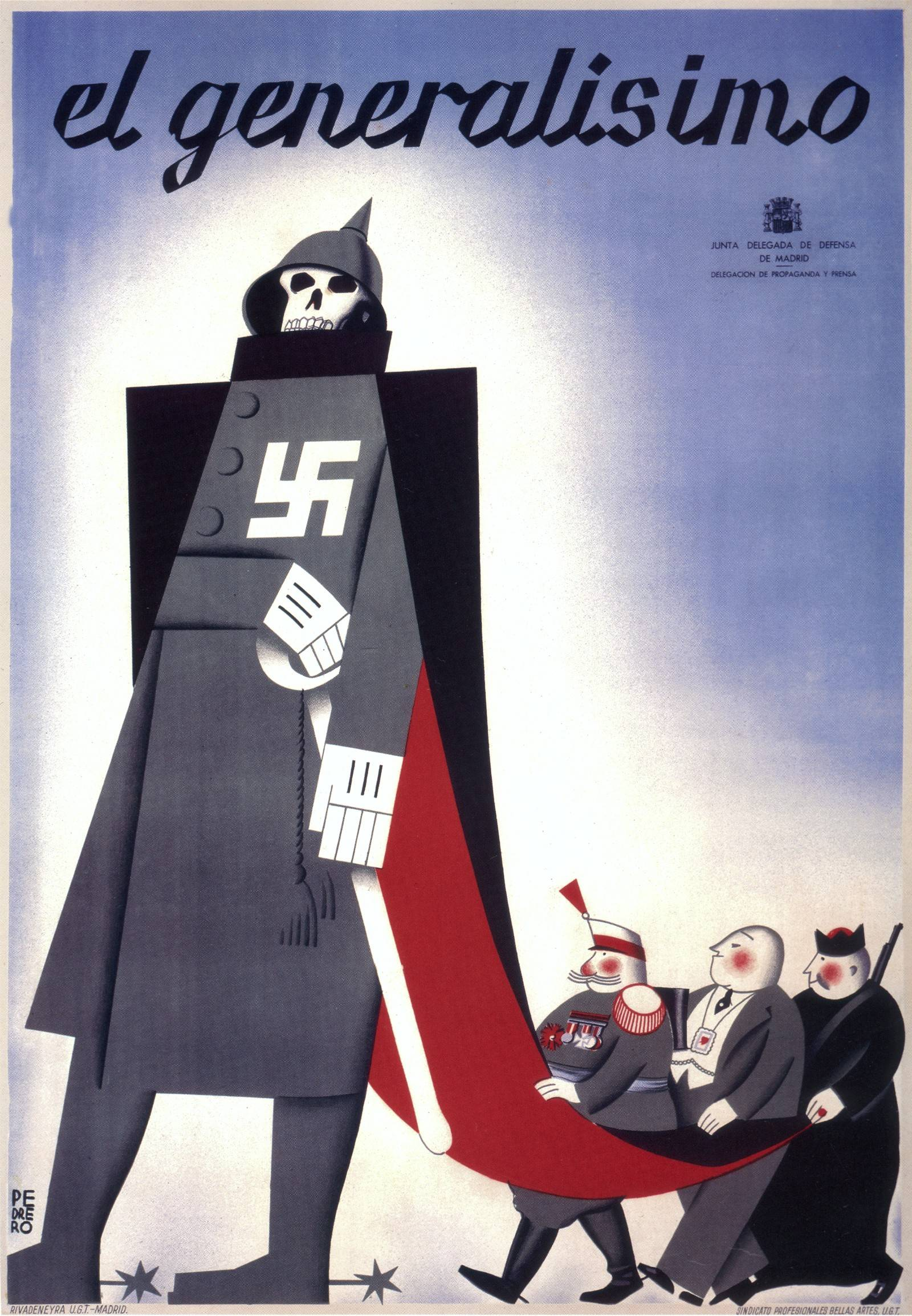 "El Generalísimo" Spanish Civil War poster from the socialist trade-union, U.G.T., showing a caricature of a foreign-supported Franco followed by a general, a capitalist and a priest, 1937